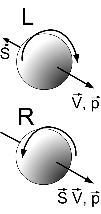 Illustration of helicity and chirality. (Same concept different illustration)